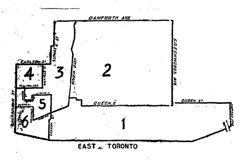 Map of the provincial riding of East Toronto, first used in the Ontario election of 1894.